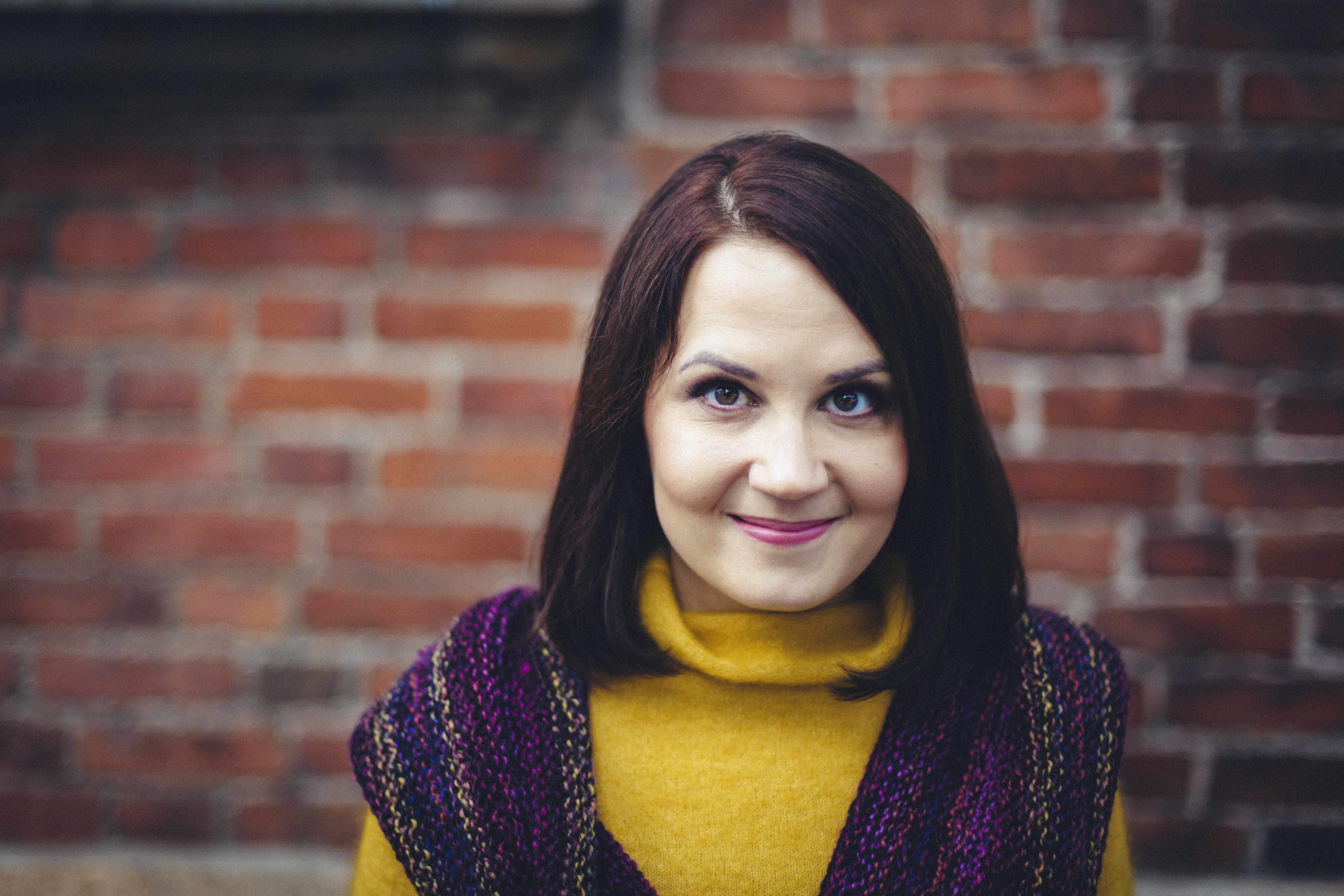 Sanni Grahn-Laasonen